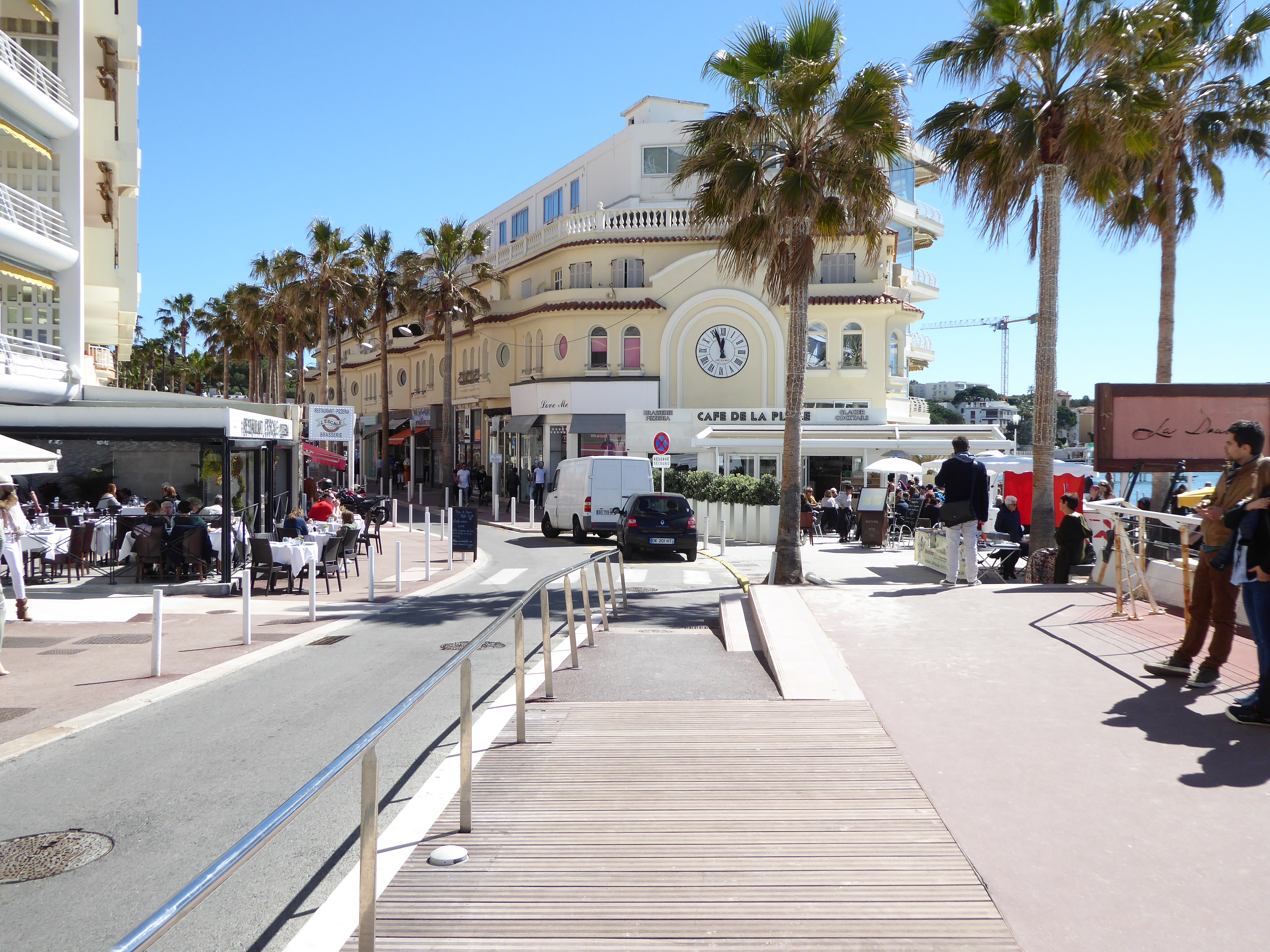 bd ed baudouin